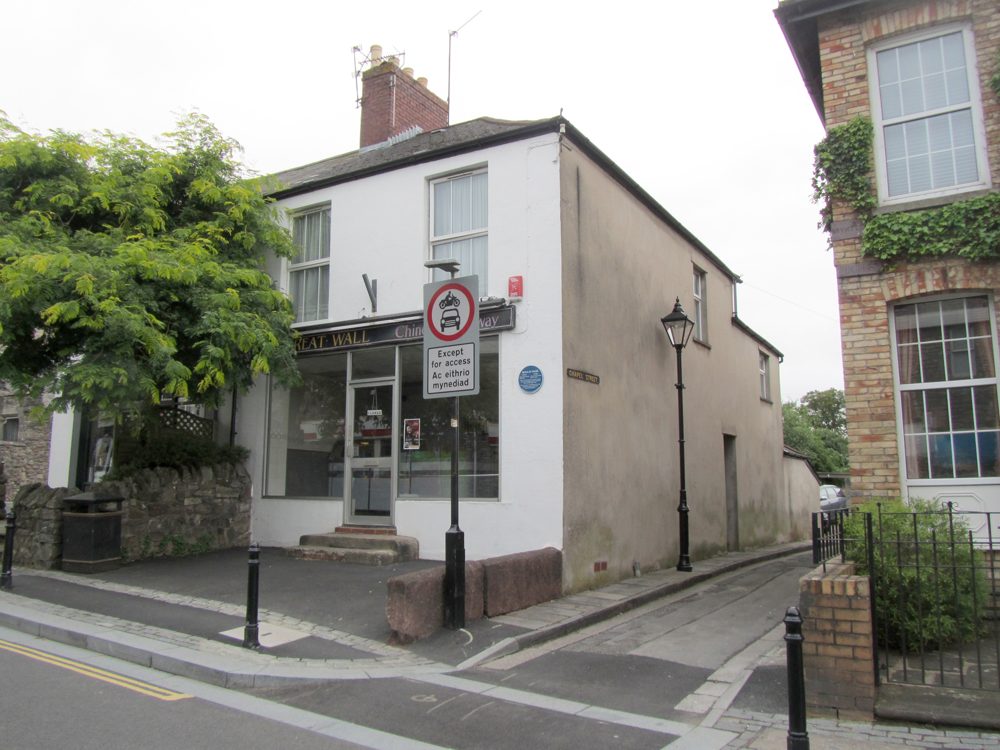 Mrs Pratchett's sweetshop in Llandaff, Cardiff, Wales. The building carries a plaque commemorating the mischief a young Roald Dahl played on Mrs Pratchett, as described in his autobiographical book Boy.